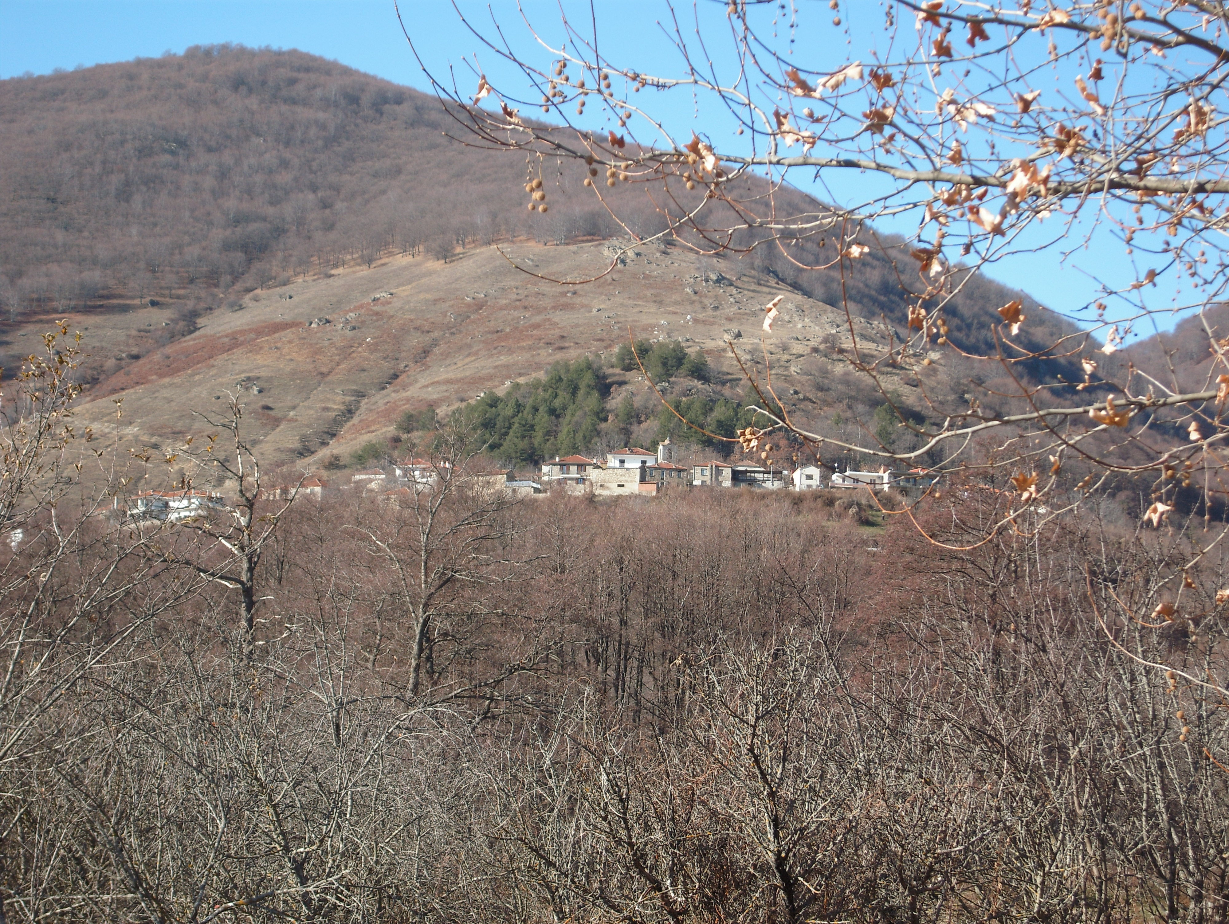 Neveska / Nymfaio